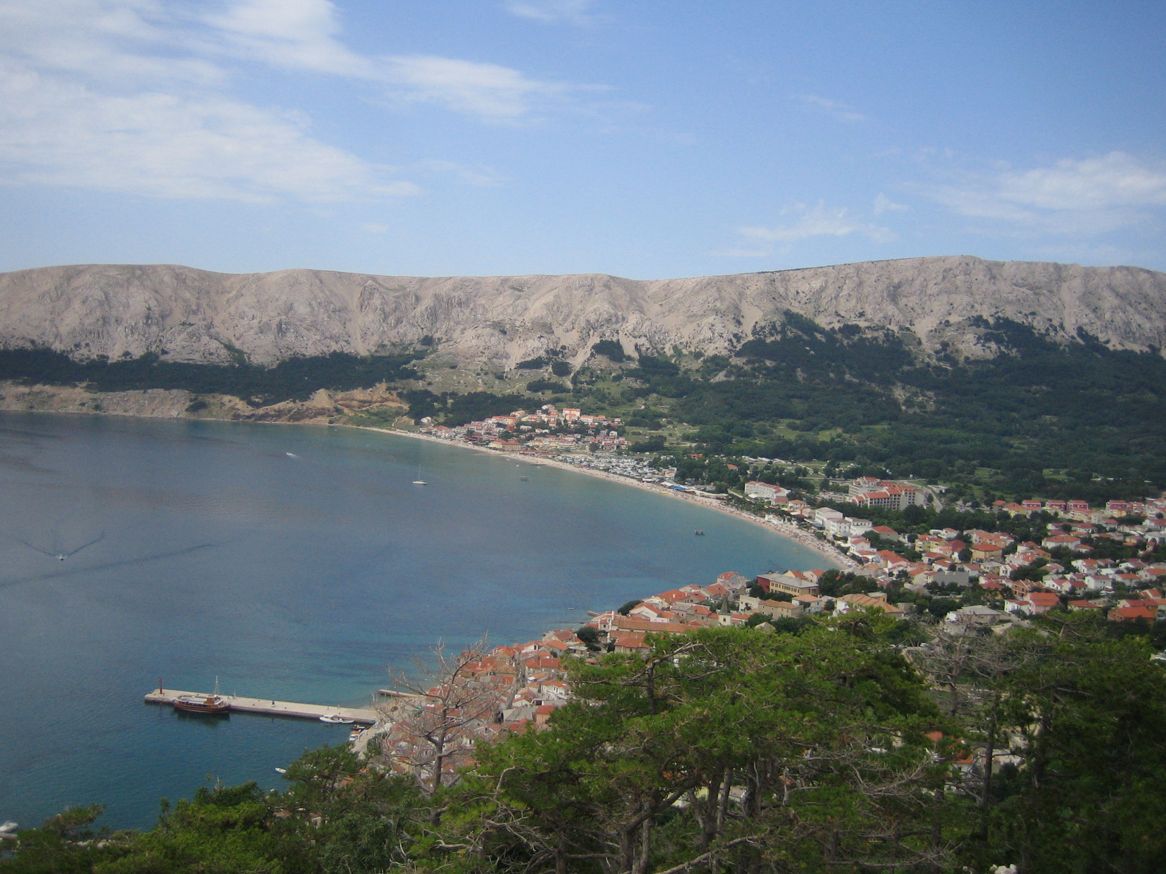 Bay of Baška from a hill.